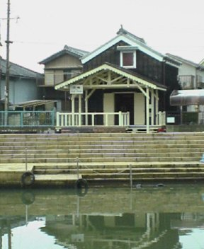 This is the "Kawasaki Kawa no Eki". Which is located in Ise, Mie, Japan.This station is by the Seta River.